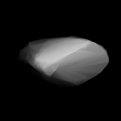 3D convex shape model of 274 Philagoria, computed using light curve inversion techniques. J. Hanuš, J. Ďurech, M. Brož, B. D. Warner (June 2011). "A study of asteroid pole-latitude distribution based on an extended set of shape models derived by the lightcurve inversion method". Astronomy and Astrophysics 530: A134. ISSN 0004-6361. arXiv